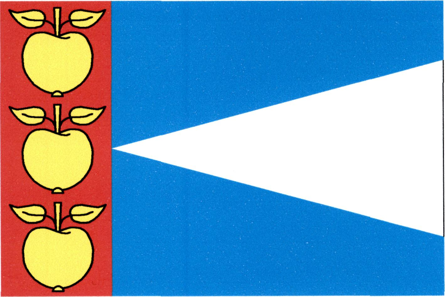 Municipal flag of Stolany village, Chrudim District, Czech Republic.